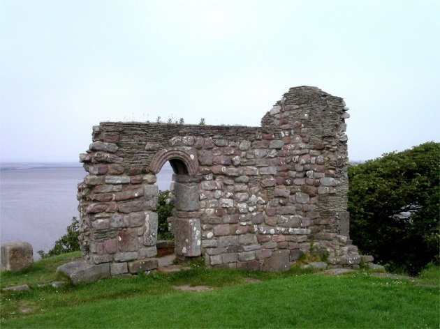 Ruin of St Patrick's Chapel, Heysham, Lancashire